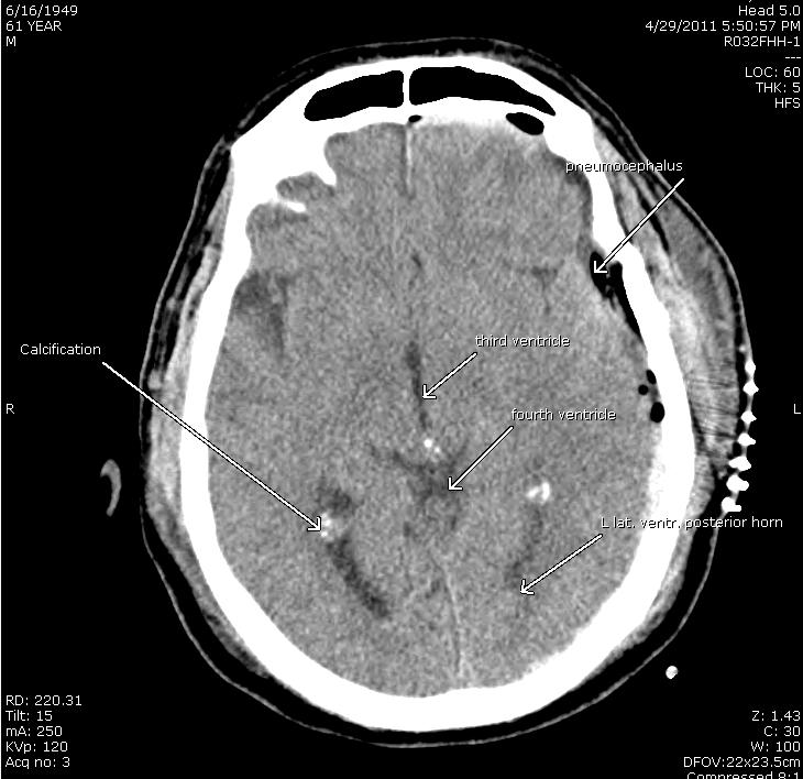 CT scan image of 3rd and 4th, and lateral ventricles of a patient after temporal craniotomy